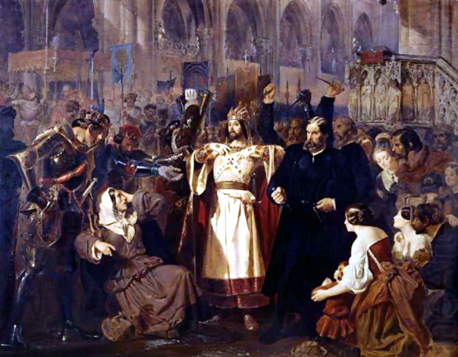 Scene from Meyerbeer's Le Prophete: painting by Edward Corbould (1815-1905)